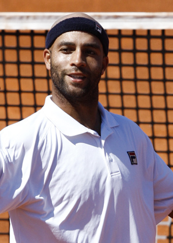 James Blake at 2009 Estoril Open, Oeiras, Portugal